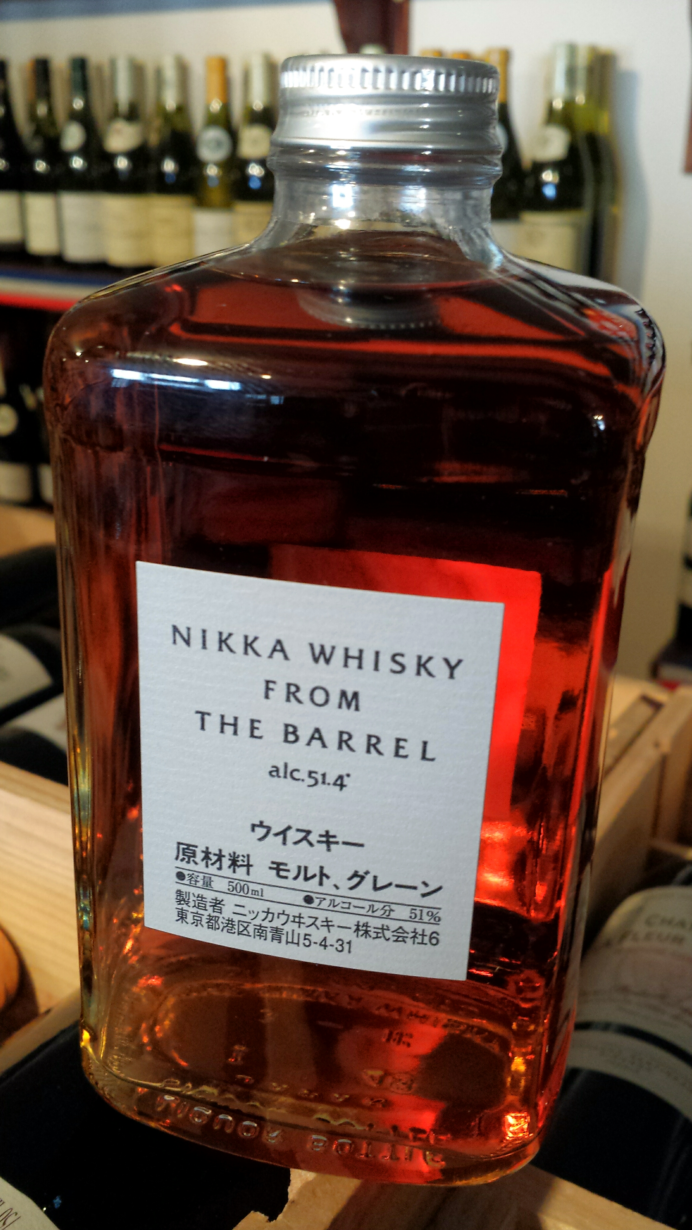 A bottle of Nikka Whisky from the Barrel.